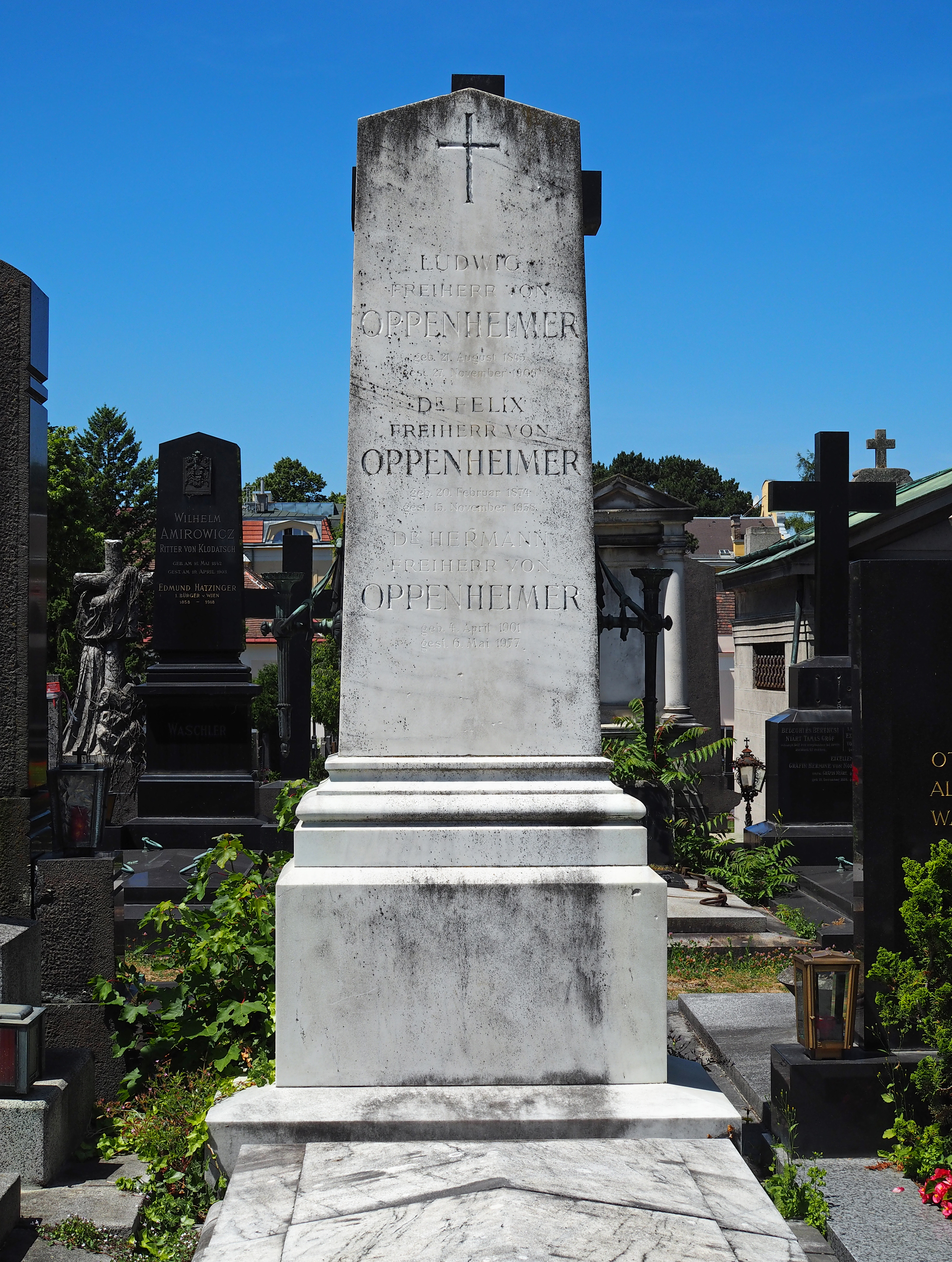 Grave of Ludwig, Felix and Hermann von Oppenheimer. Hietzing Cemetery, 1130 Vienna (group 19, number 113)